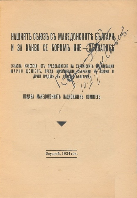 Our Union with the Macedonian Bulgarians by Marko Dosen